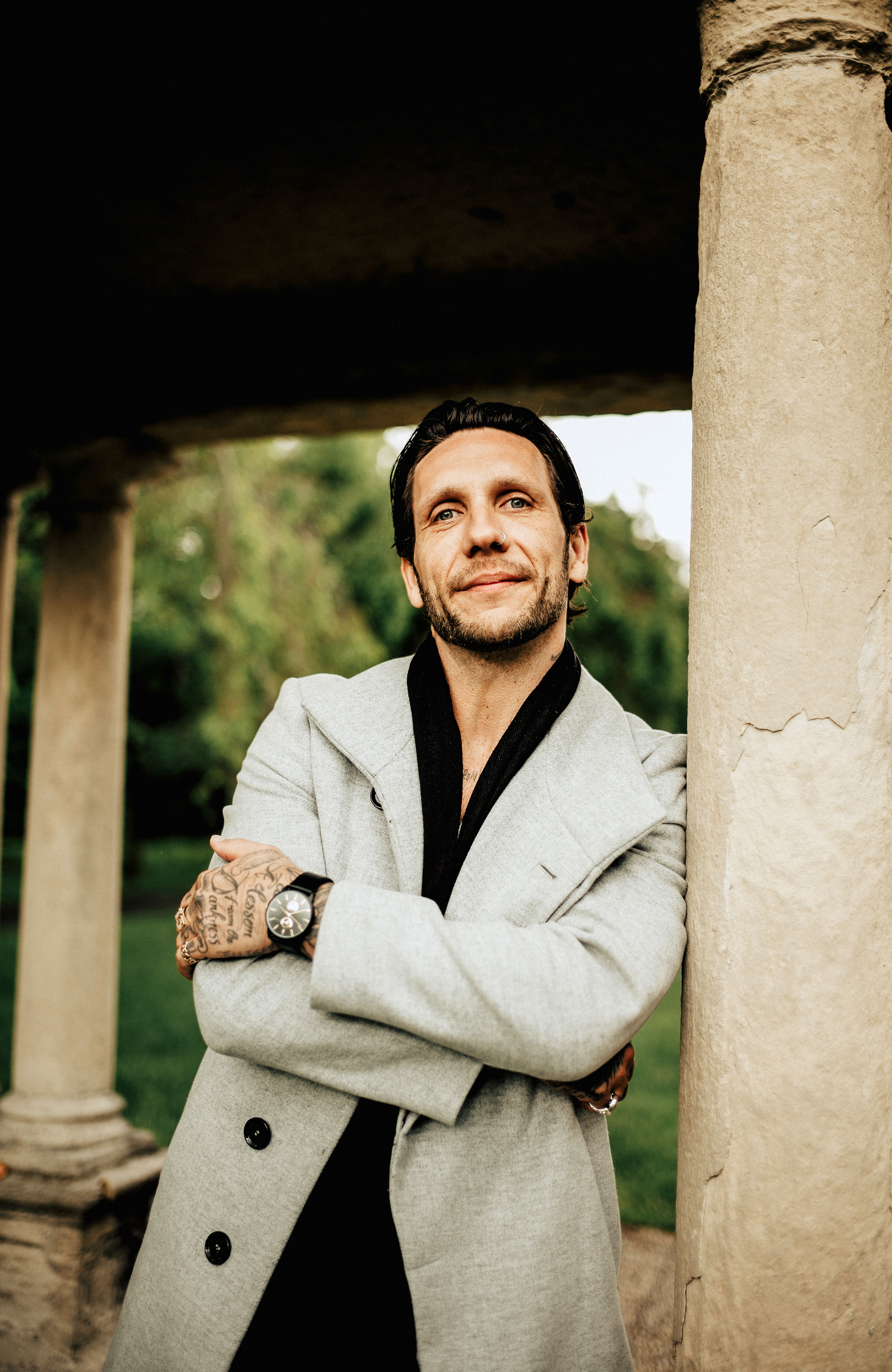 Brandon Novak poses for a photograph in Philadelphia, PA on the day he celebrates being four years sober